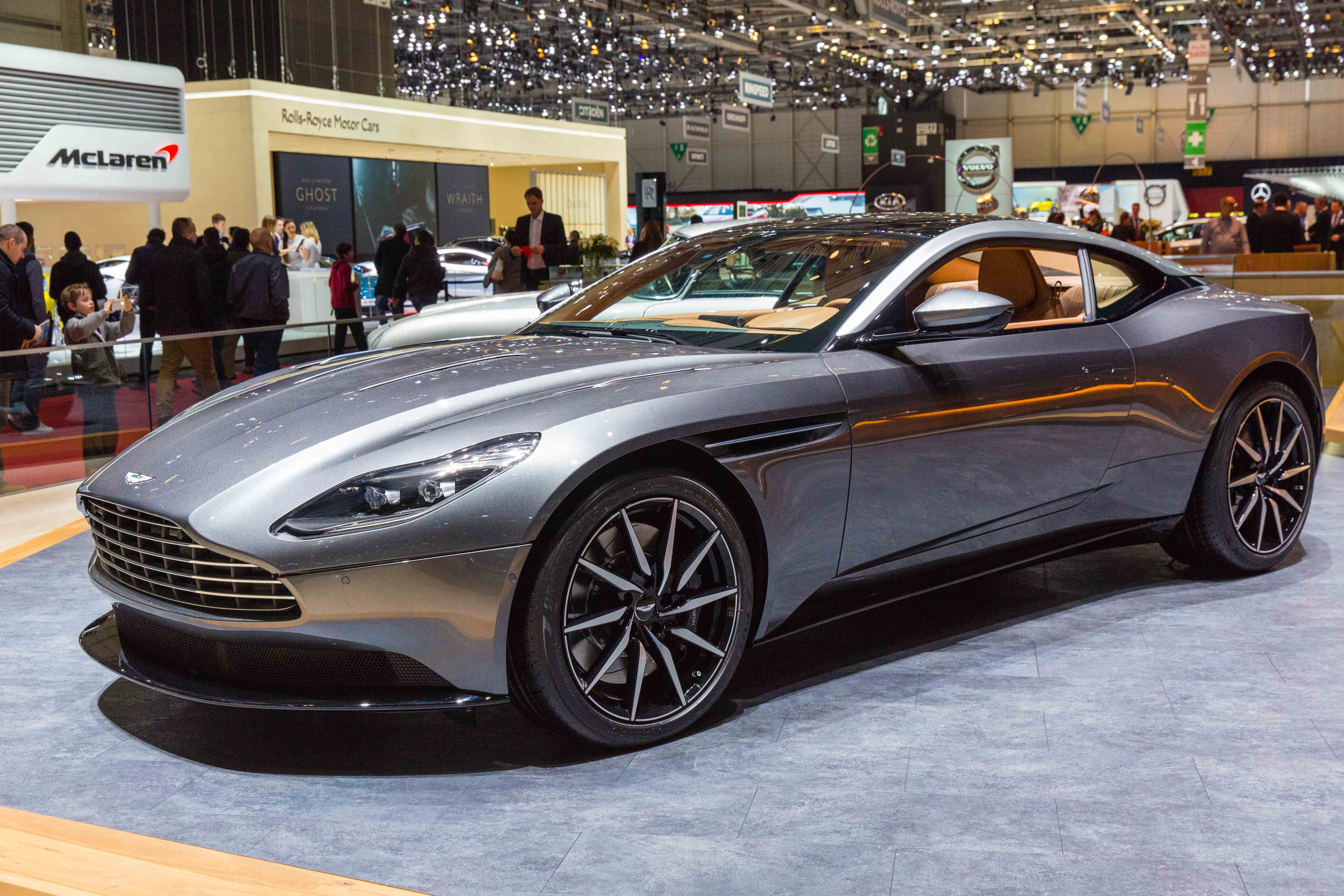 Photo of the Aston Martin DB11, as announced at the Geneva Motor Show